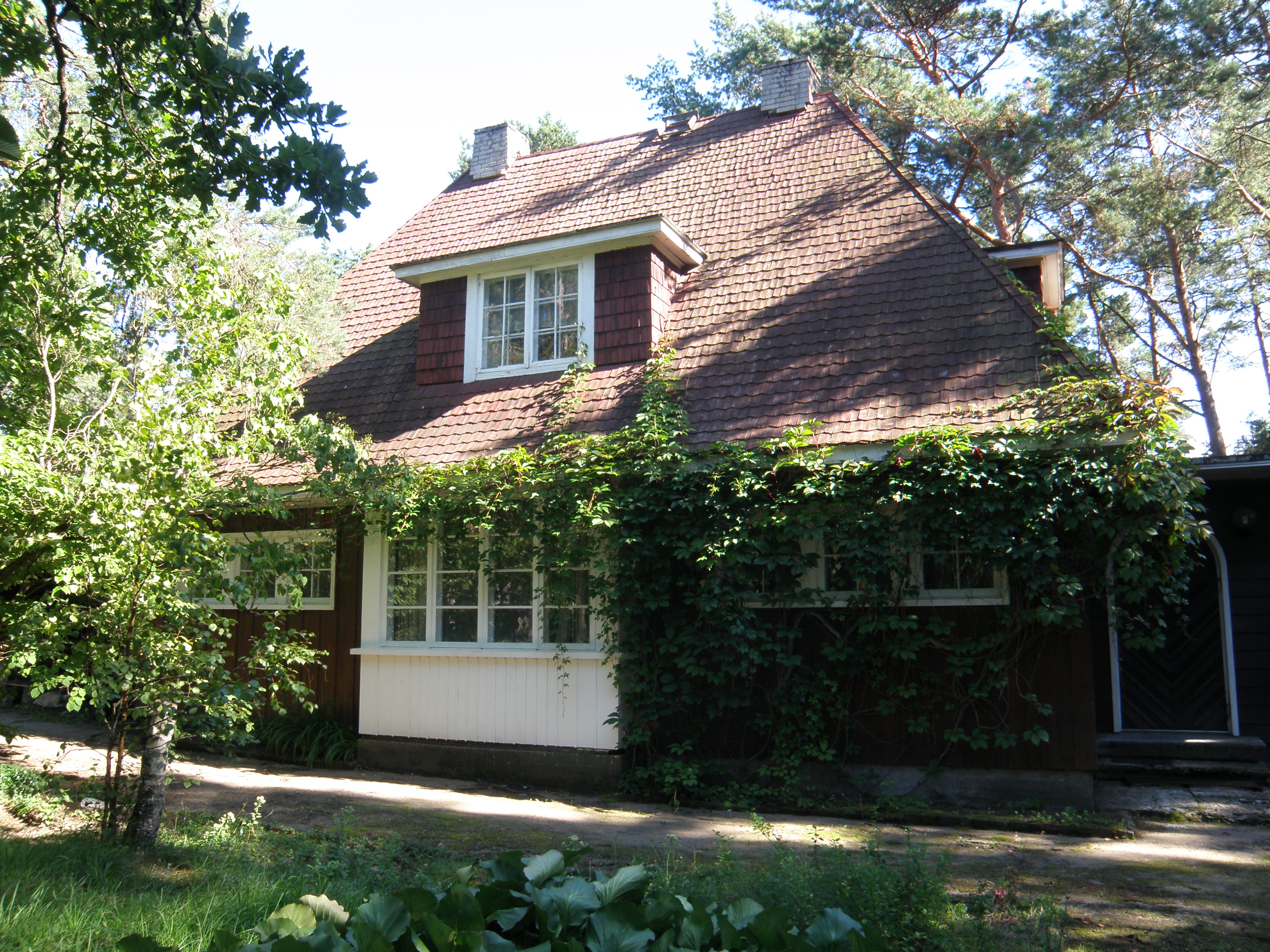 Elamu Vabaduse pst. 127